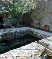 museo